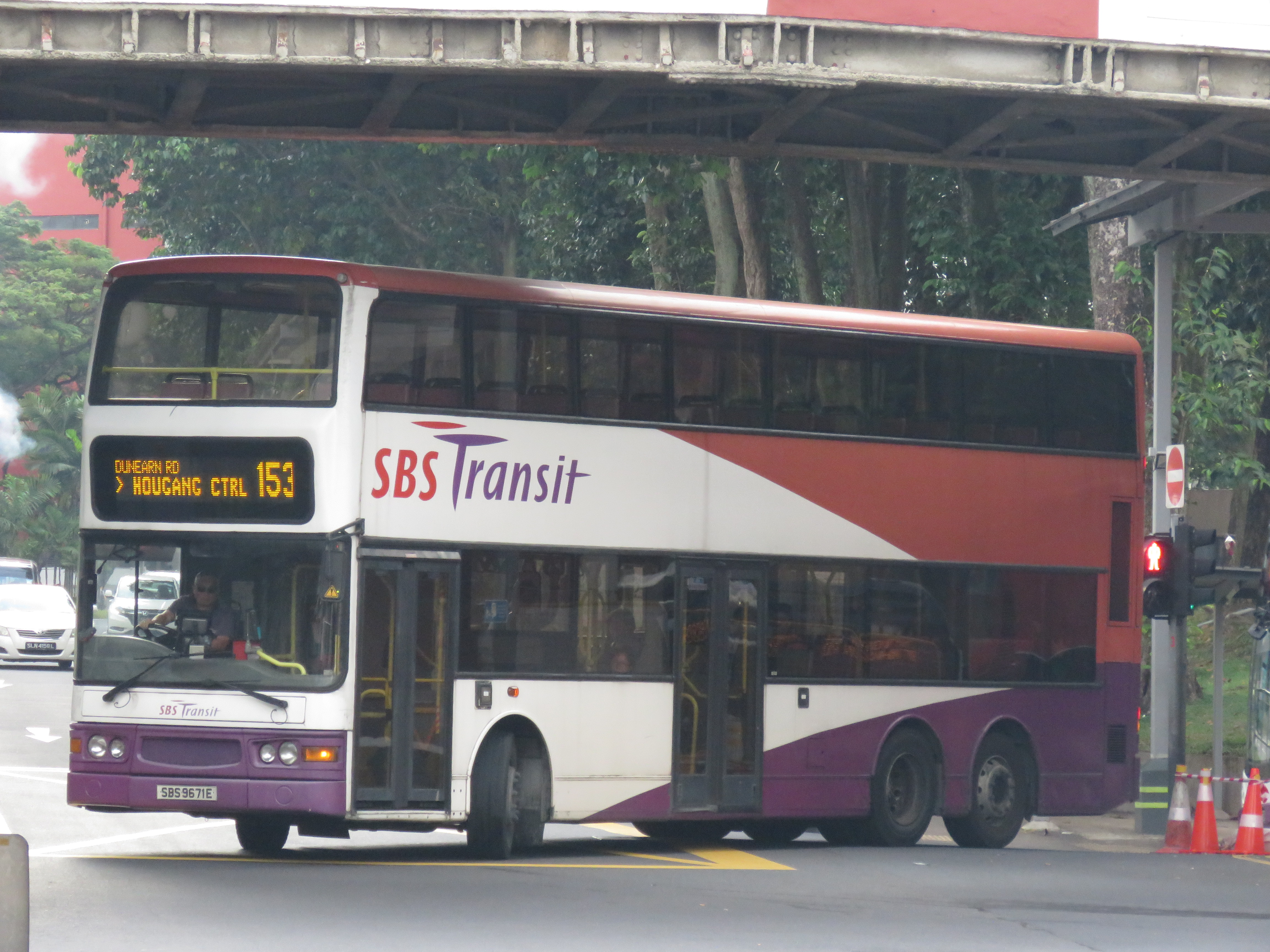 Dennis Trident Svc153